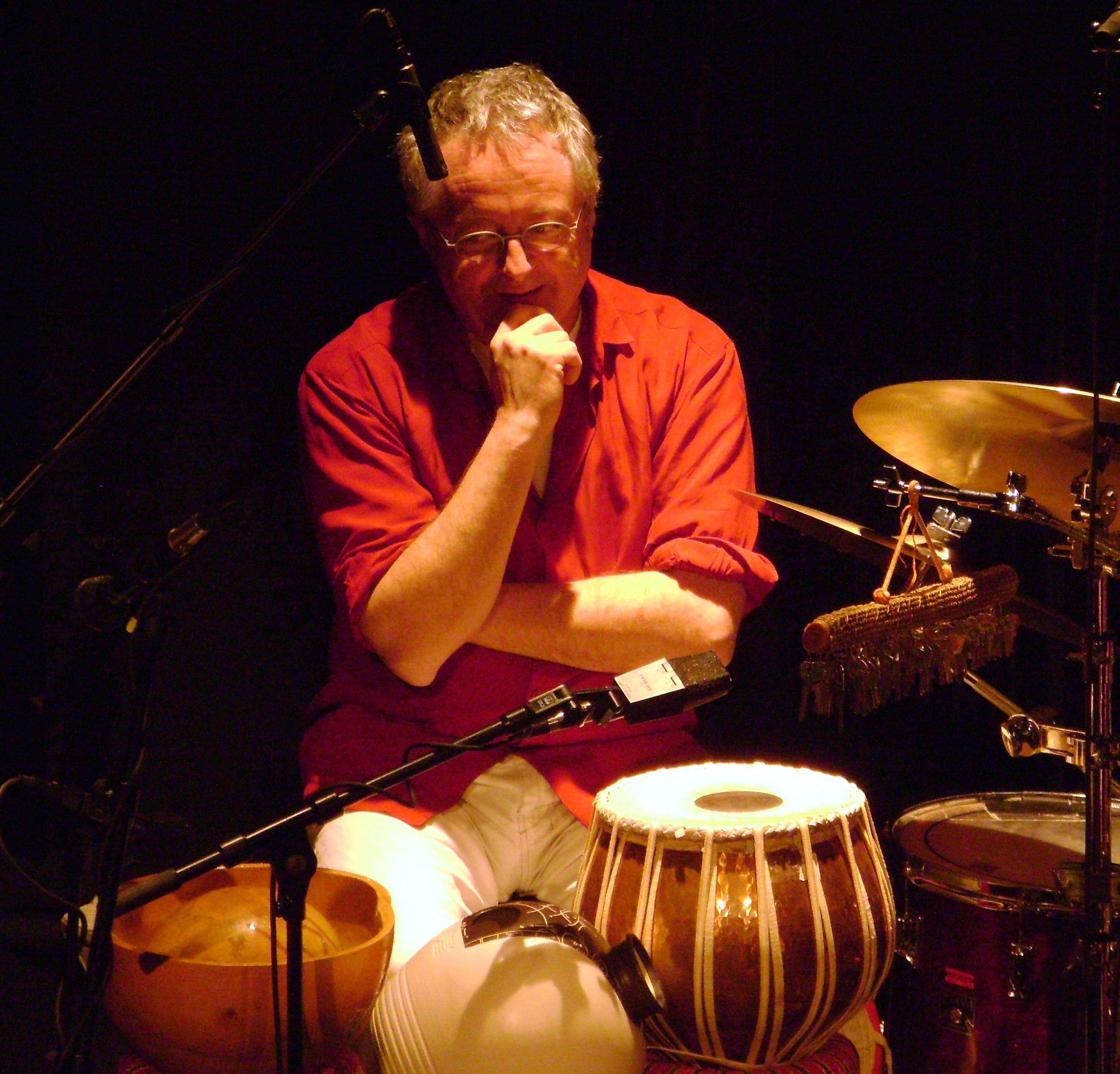 Peter Rosmanith at a concert with the Bethlehem All Stars. Treibhaus Innsbruck, 2008